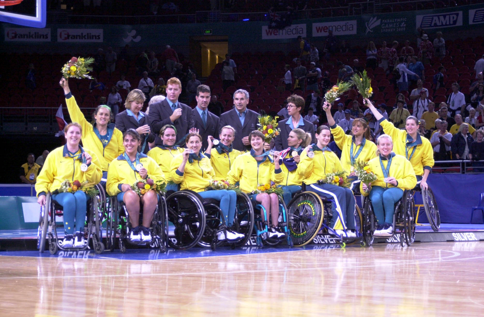 Australian women's wheelchair basketball team at their silver medal presentation ceremony, 2000 Sydney Paralympic Games